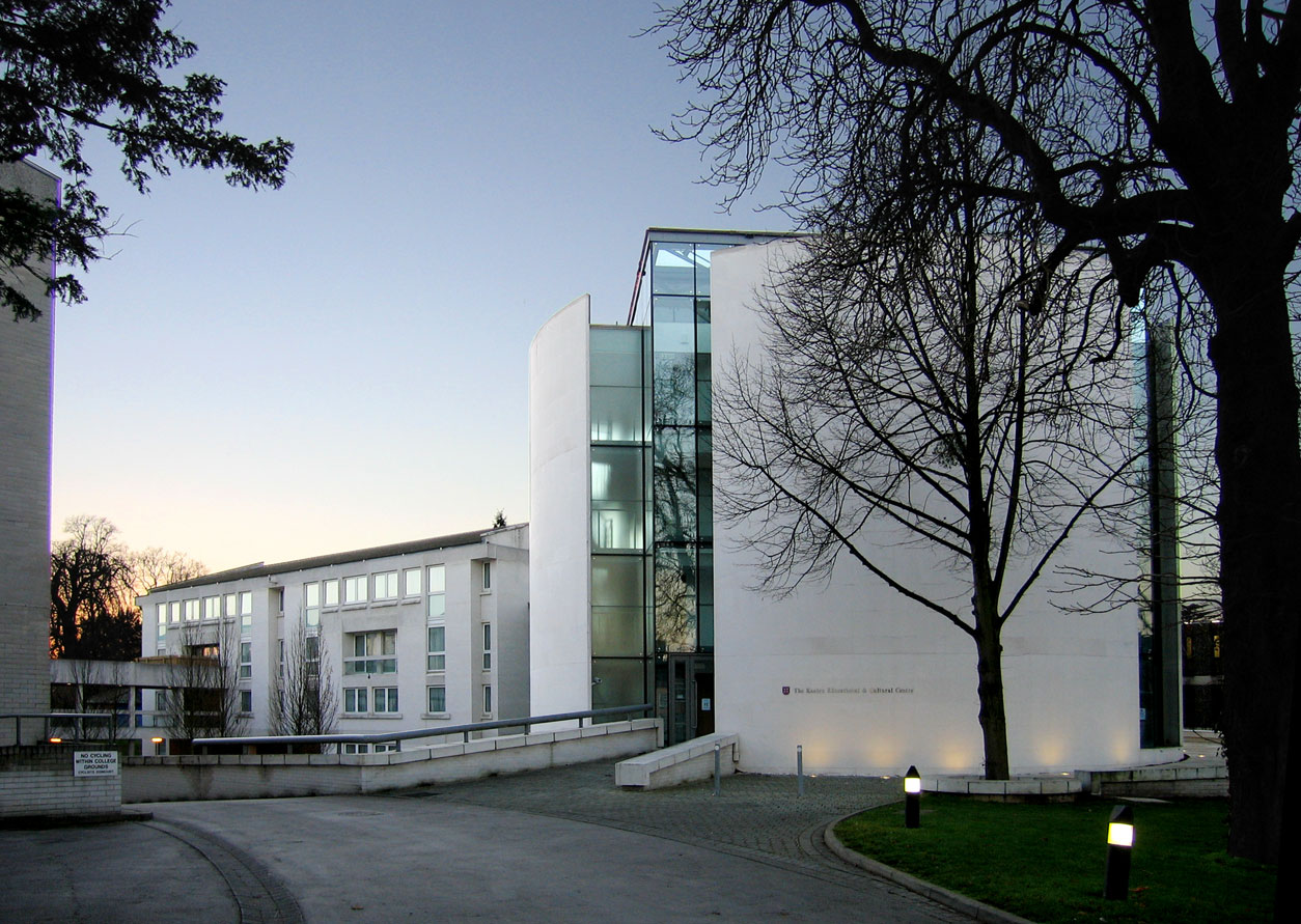 Kaetsu Education and Cultural Centre of New Hall College, Cambridge. Funded by the Japanese Kaetsu Foundation, New Hall's new Education and Cultural Centre provides conference facilities and 112 study-bedrooms. Built: 1996 Location: Huntingdon Road, Cambridge, UK